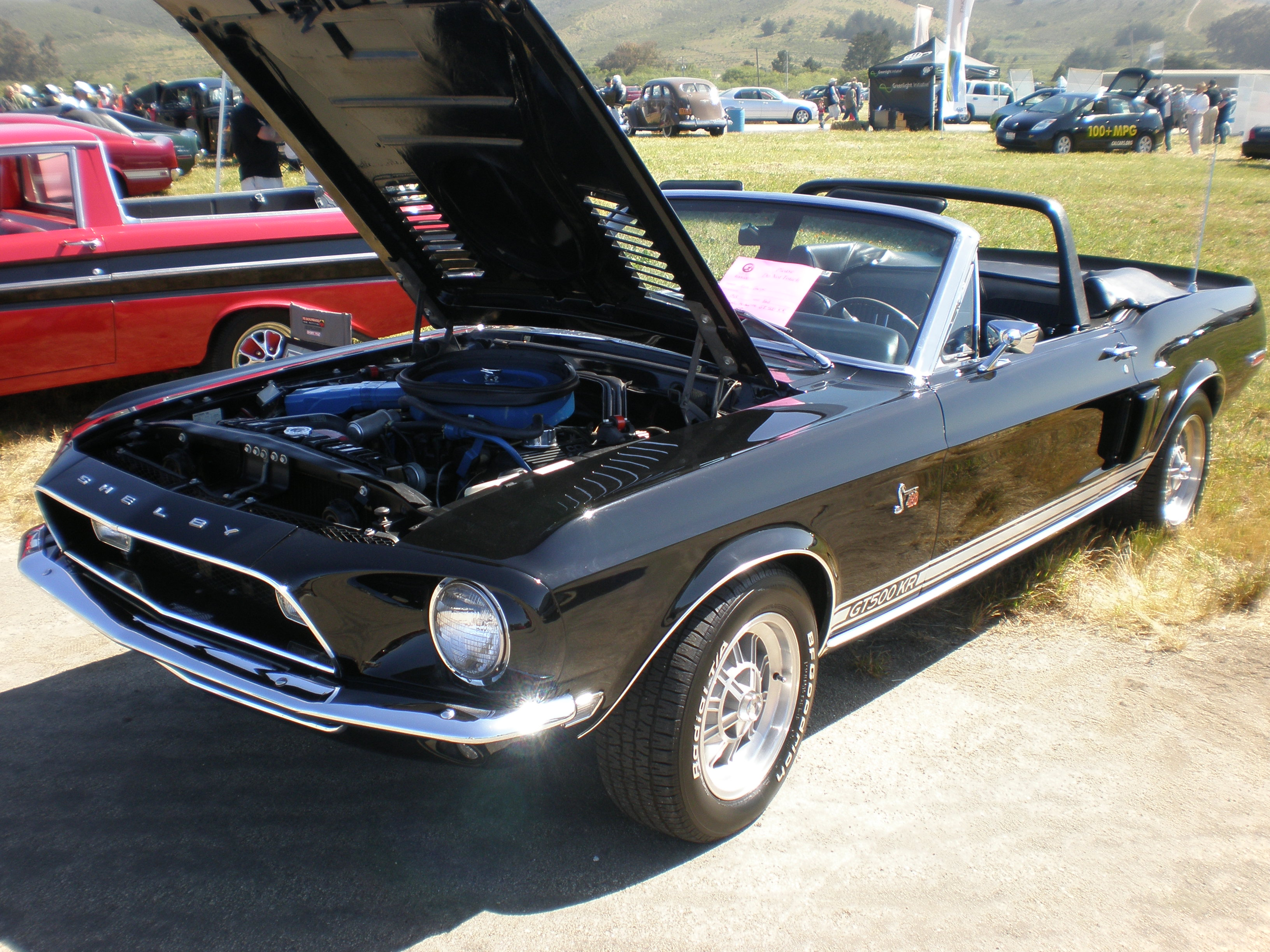 A 1968 Shelby Mustang GT500KR at the Pacific Coast Dream Machines vehicle show at the Half Moon Bay Airport in Half Moon Bay, California